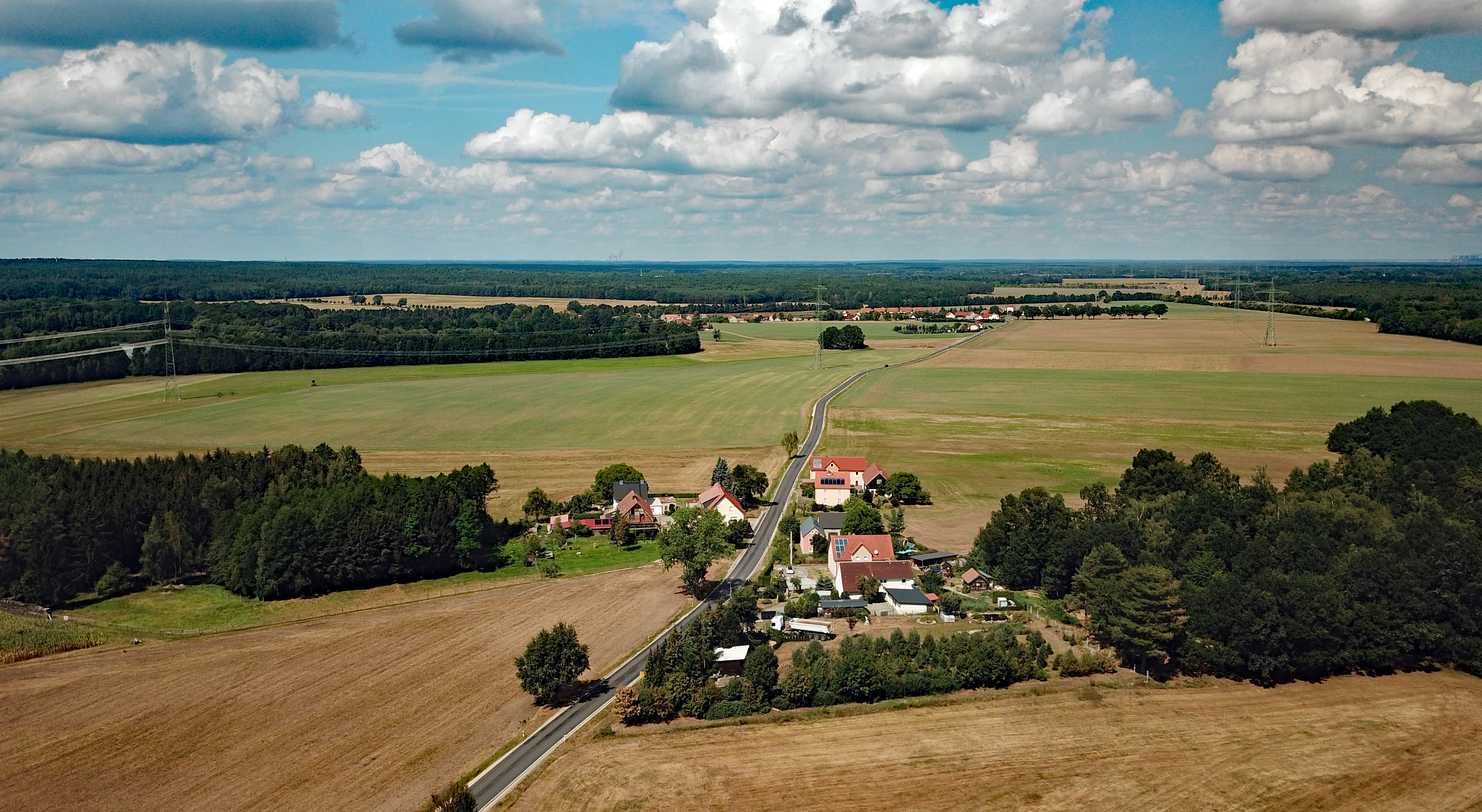 Grünbusch (Radibor, Saxony, Germany) Hornjoserbsce: Powětrowy wobraz Haja pola Radworja